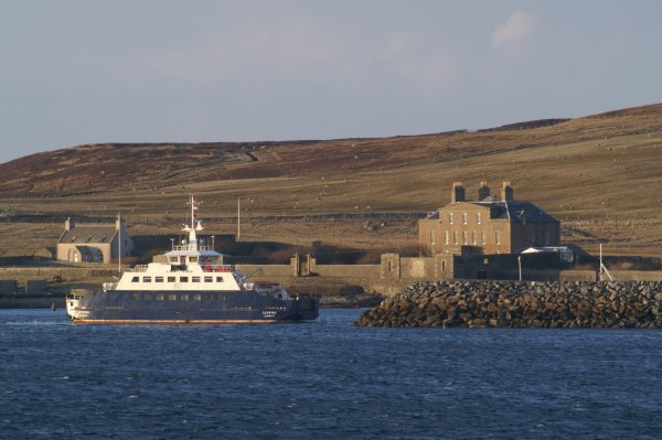 Ferry and Gardie House on Bressay, Shetland, Scotland